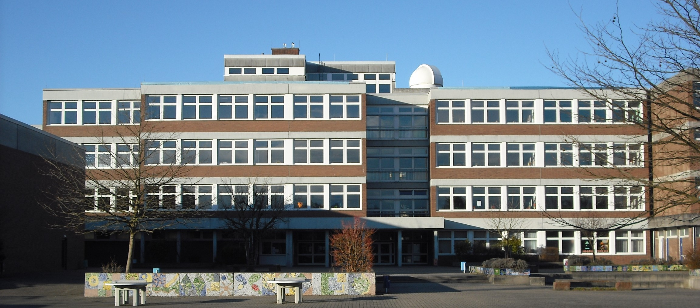 Europa-Gymnasium